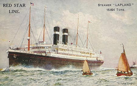 SS Lapland